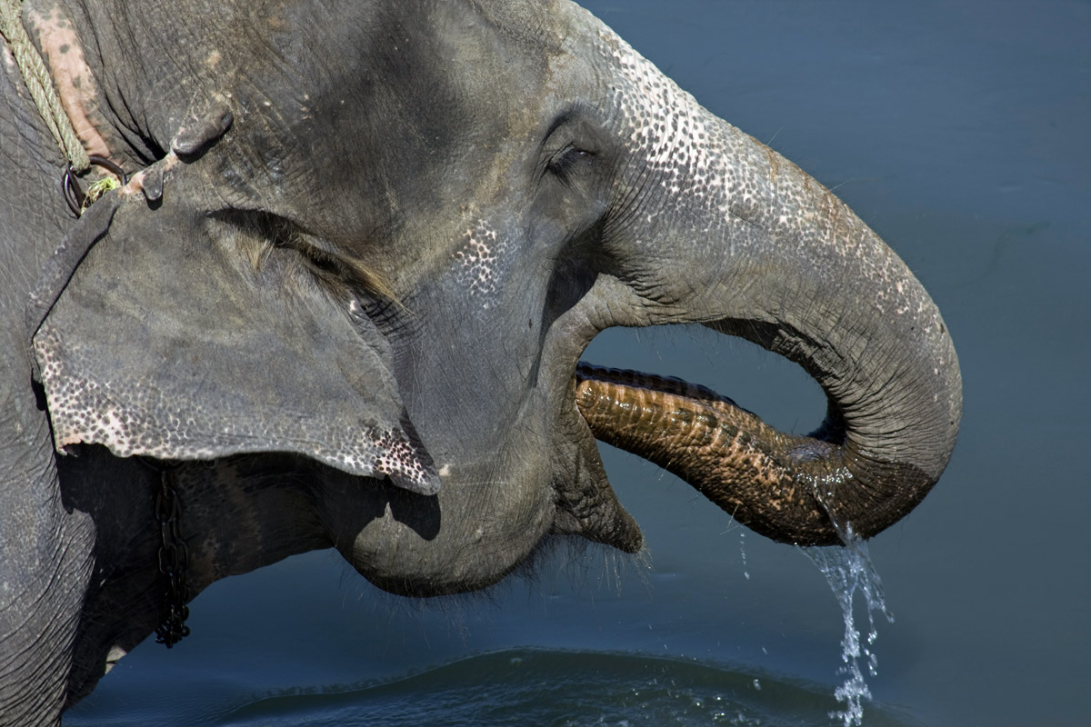 Asian Elephant (Elephas maximus) Royal Chitwan National Park, Chitwan, Nepal.